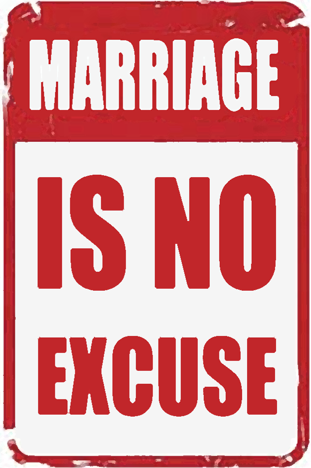 Anti-rape, anti marital rape sign with the wording "Marriage is NO EXCUSE"